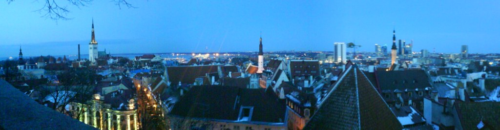 Panoramic view of Tallinn